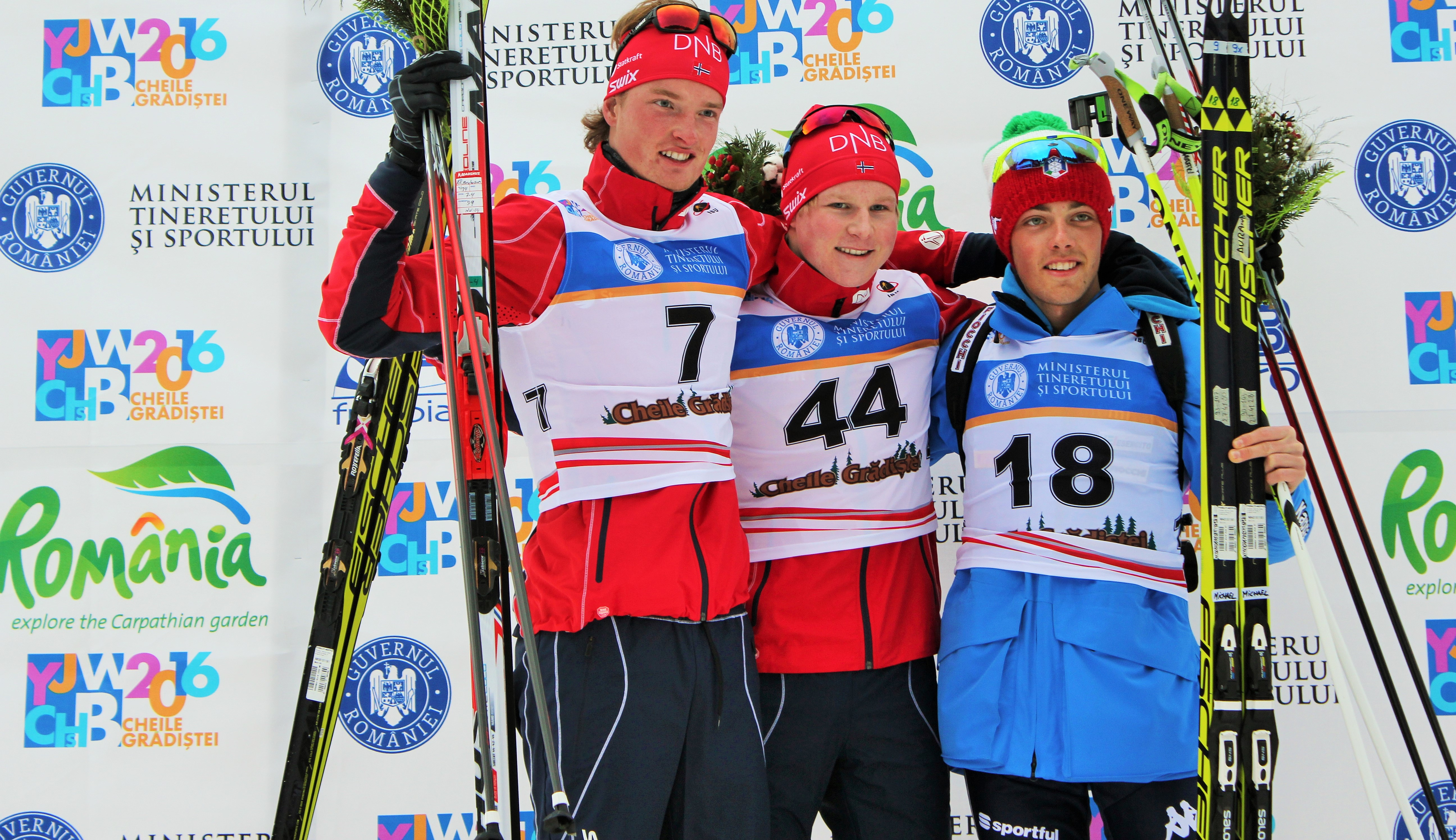 The podium on the 12.5 km Individual at the Biathlon Junior World Championships 2016. Left to right: Aleksander Fjeld Andersen (NOR), Harald Øygard (NOR), and Michael Durand (ITA).